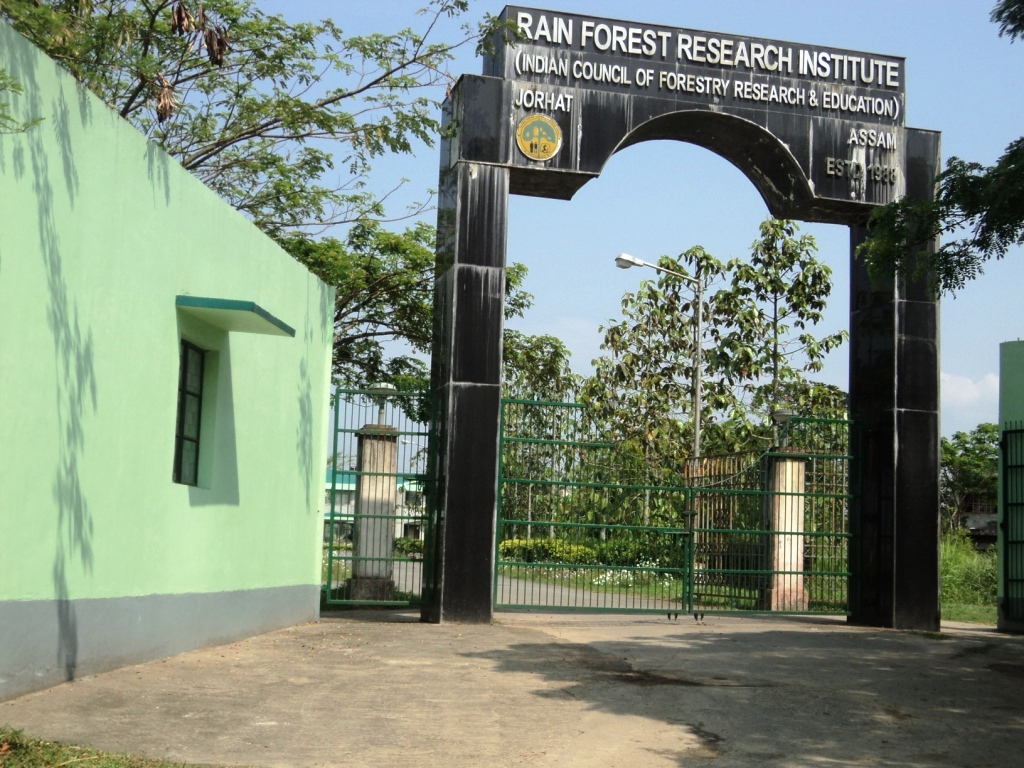 Entrance to the Rain Forest Research Institute (RFRI), Jorhat, Assam, which is one of the constituent institutes of Indian Council of Forestry Research and Education (ICFRE), Dehradun. It was established in 1988.